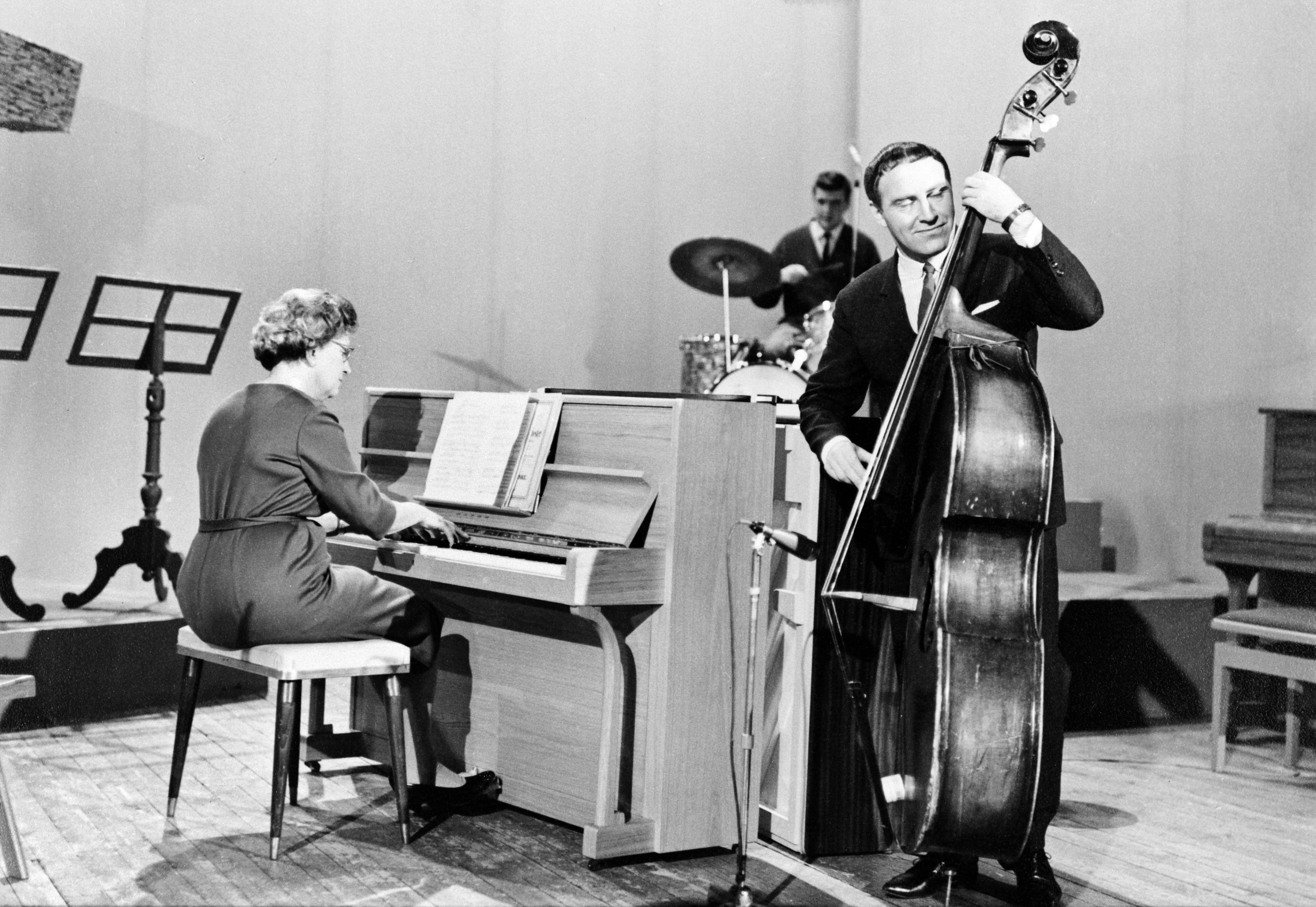 Photograph of the Finnish bassist Jorma Weneskoski (1929–2006) performing.